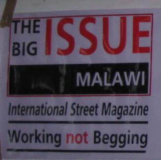 The Big Issue Malawi Magazine logo